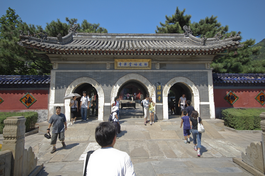 An entrance into the Tanzhe Temple of Beijing